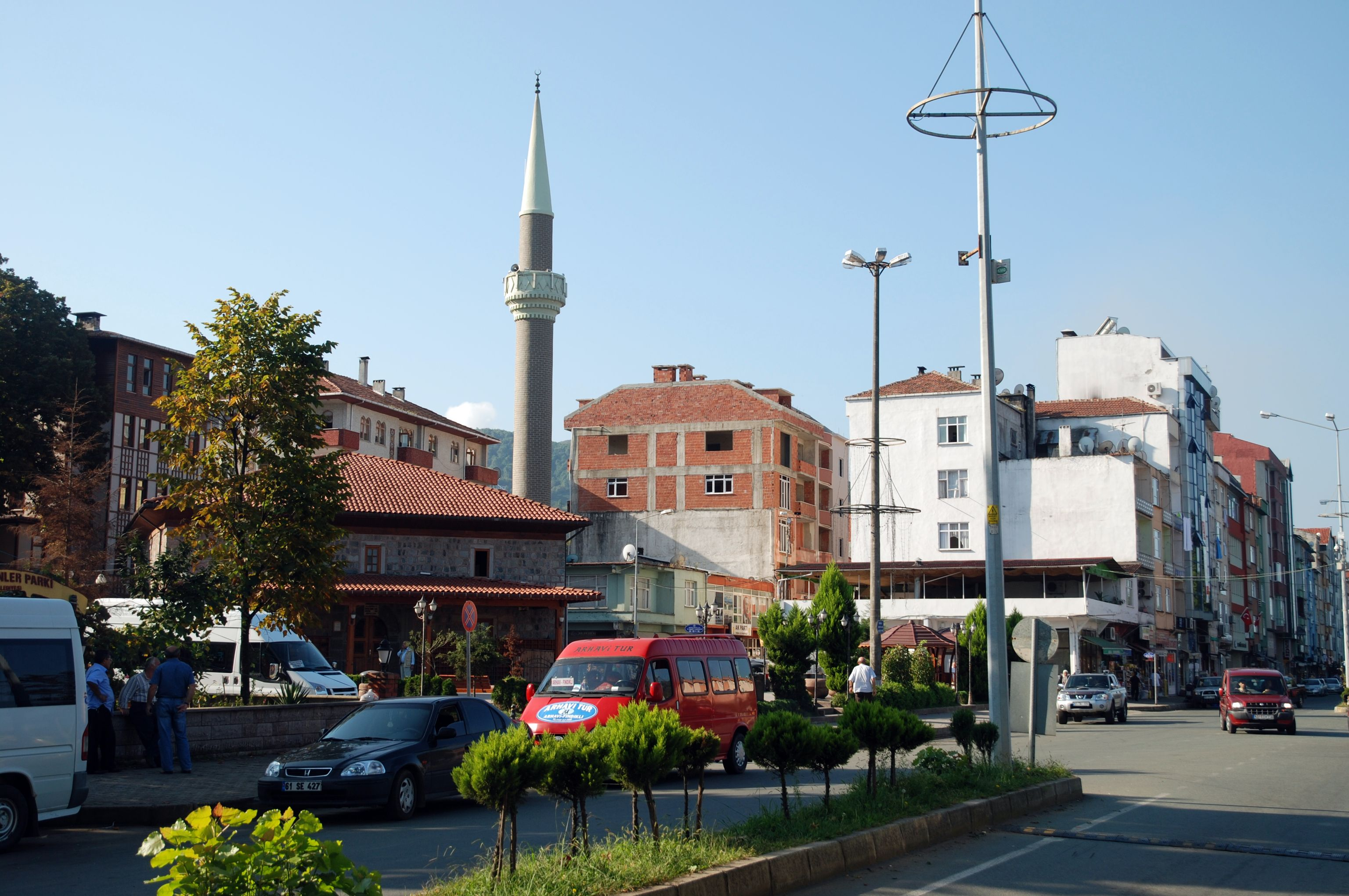 Borçka, main road